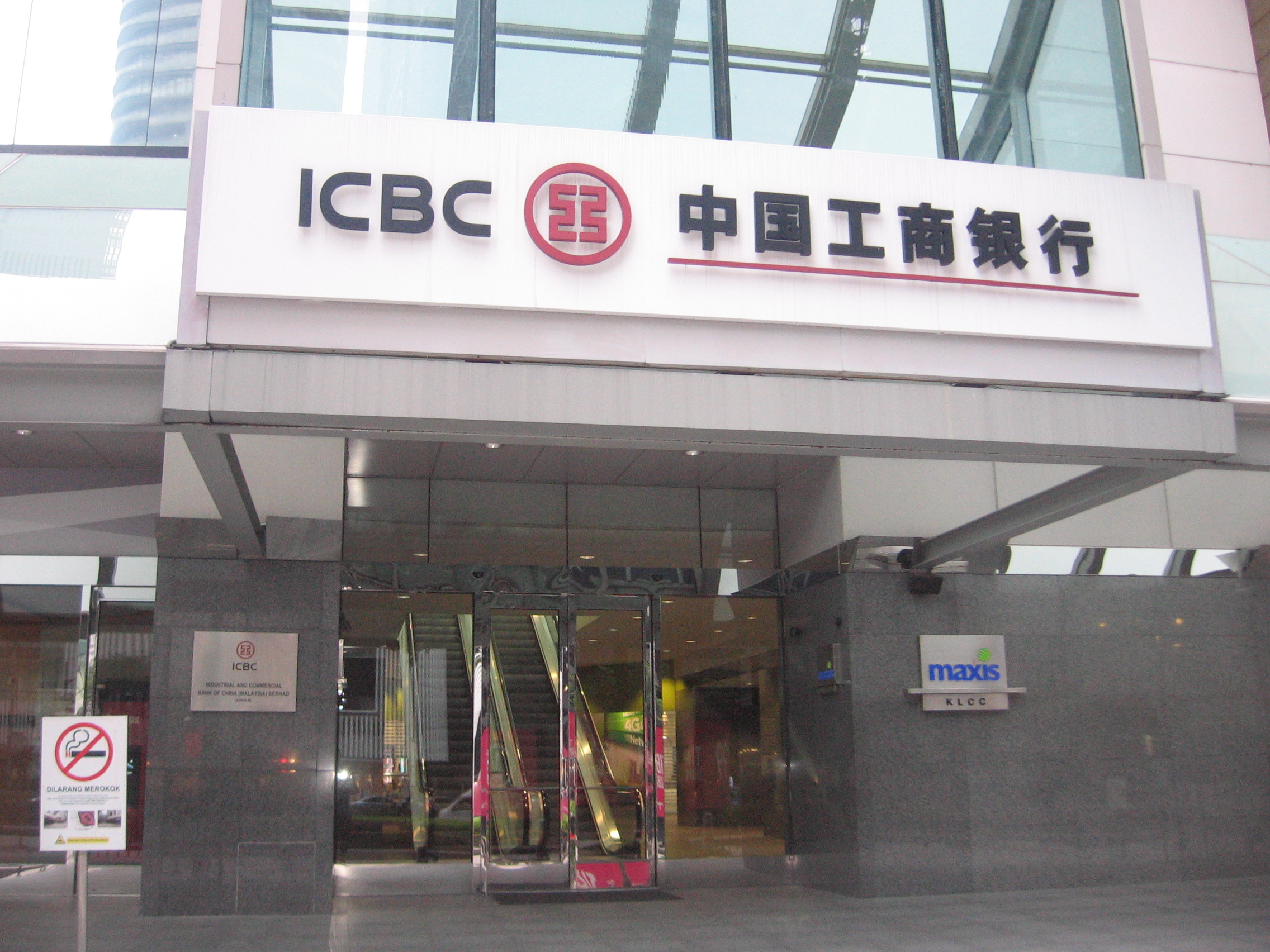 The ICBC branch in KLCC, Kuala Lumpur, Malaysia.